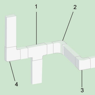 Angular trunking with accessories